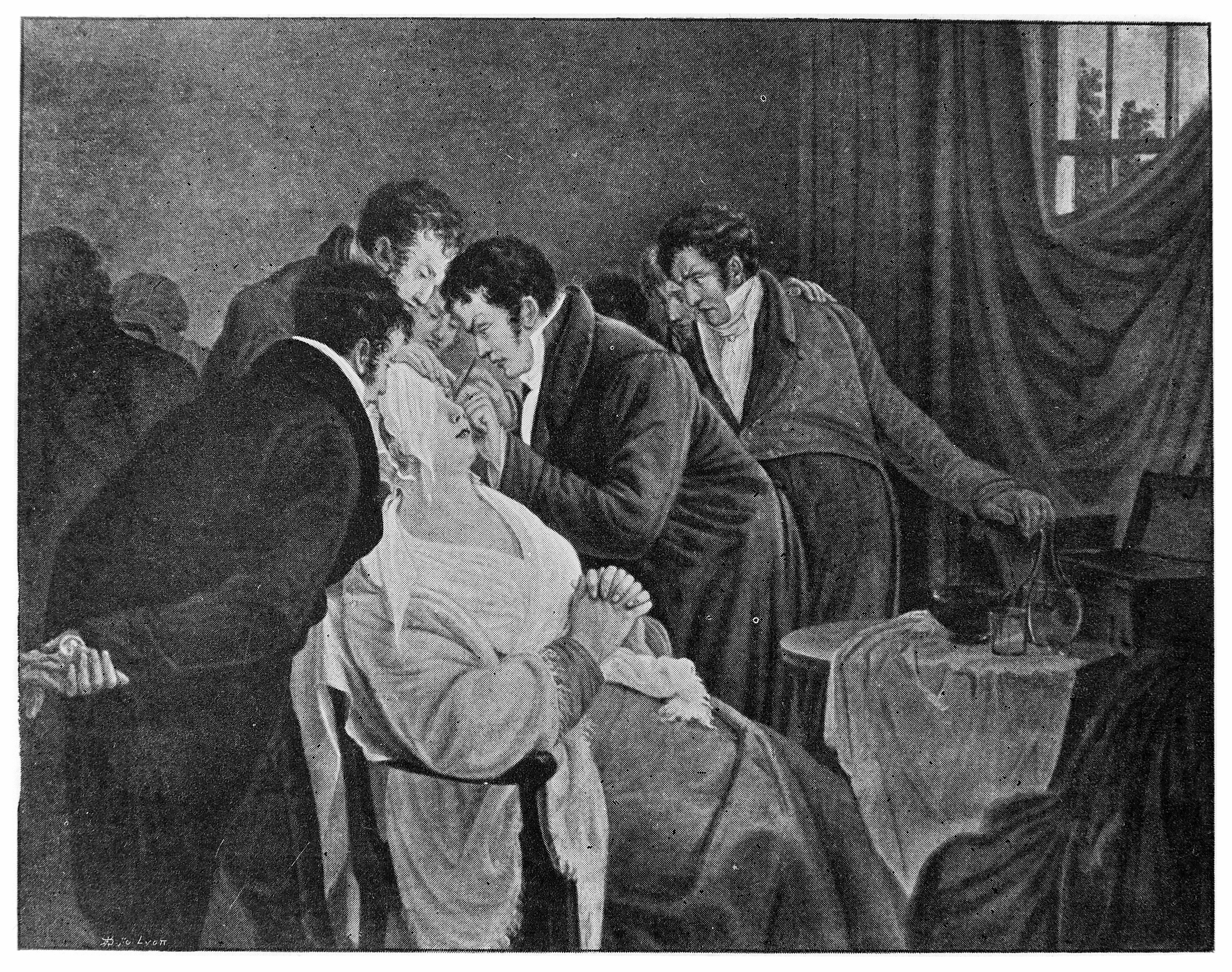 Guillaume Dupuytren operating on a cataract, source unknown. Wellcome Images Keywords: eye surgery; opthalmic; Dupuytren, Guillaume; Cataract